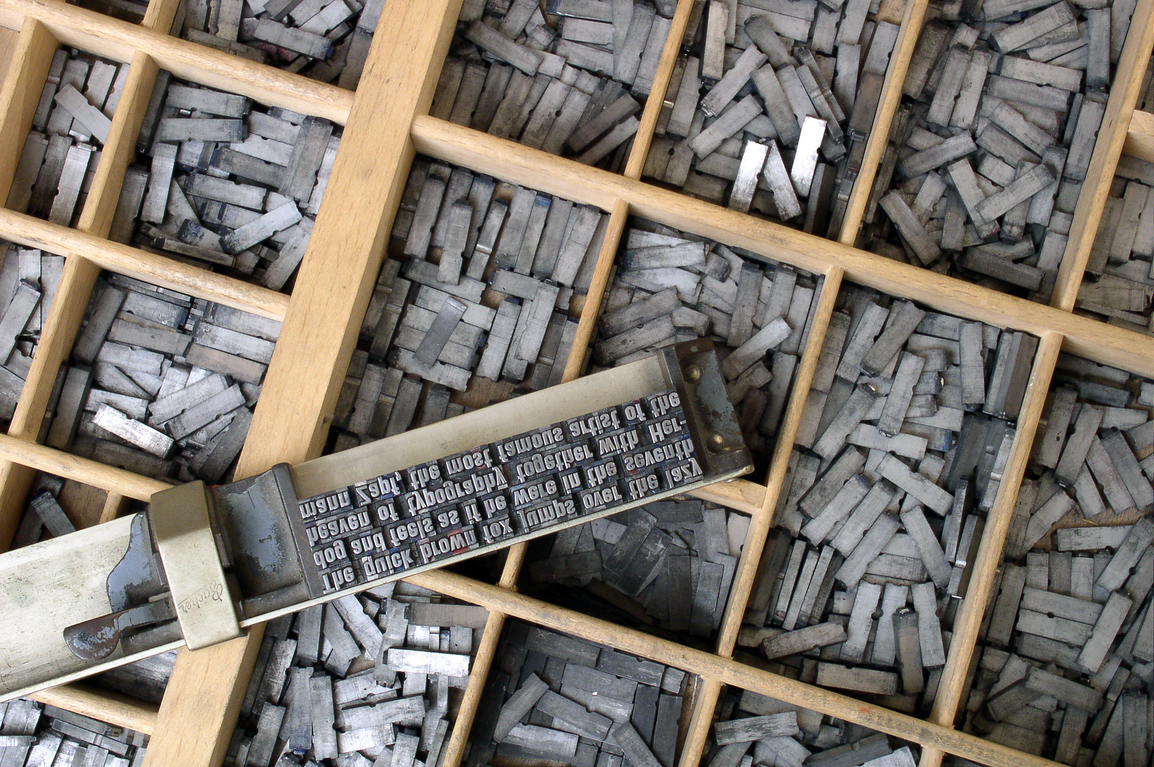 Note: the plate says - "The quick brown fox jumps over the lazy dog and feels as if he were in the seventh heaven of typography together with Hermann Zapf, the most famous artist of the"